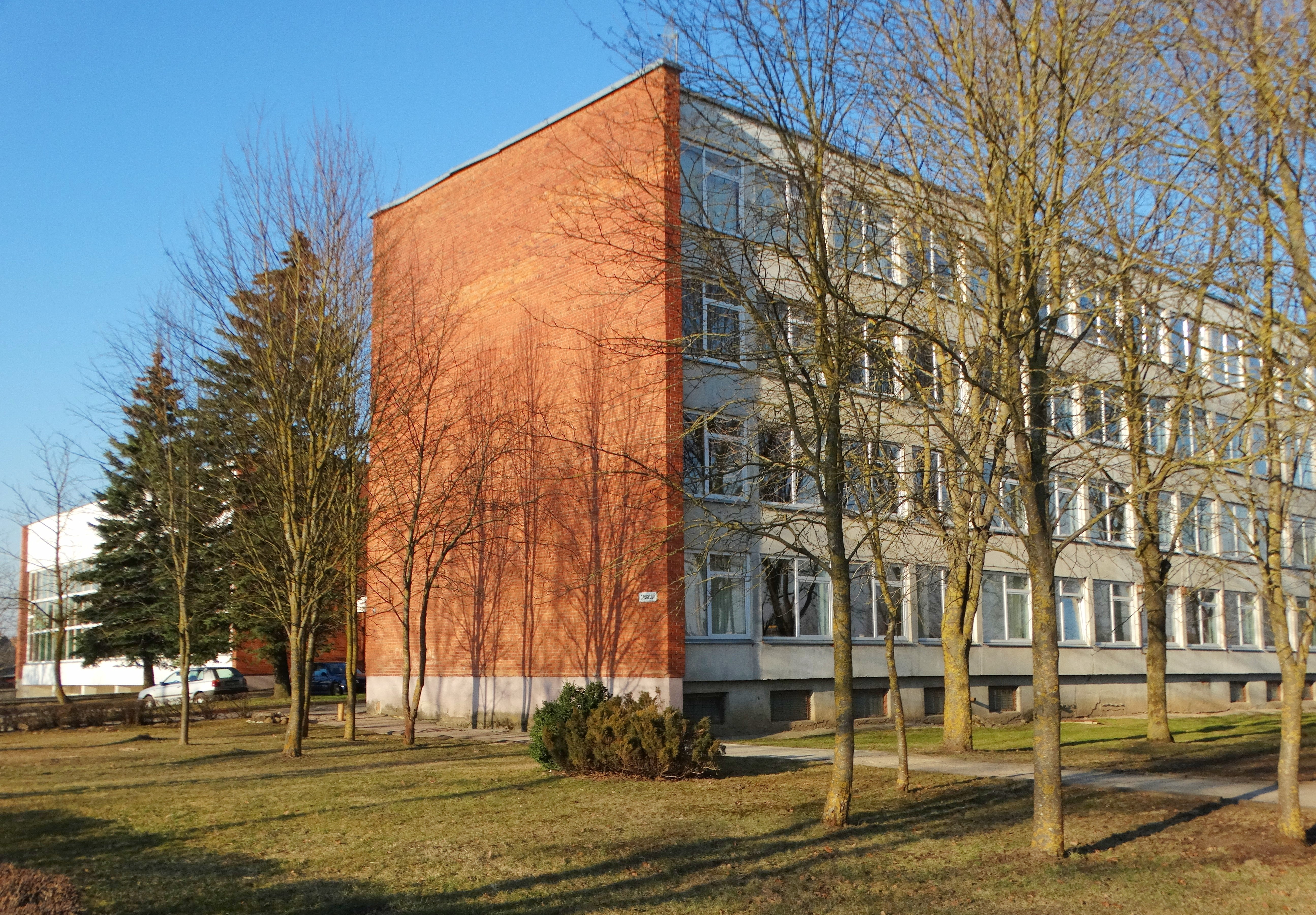 Polytechnic School, Kuršėnai, Lithuania